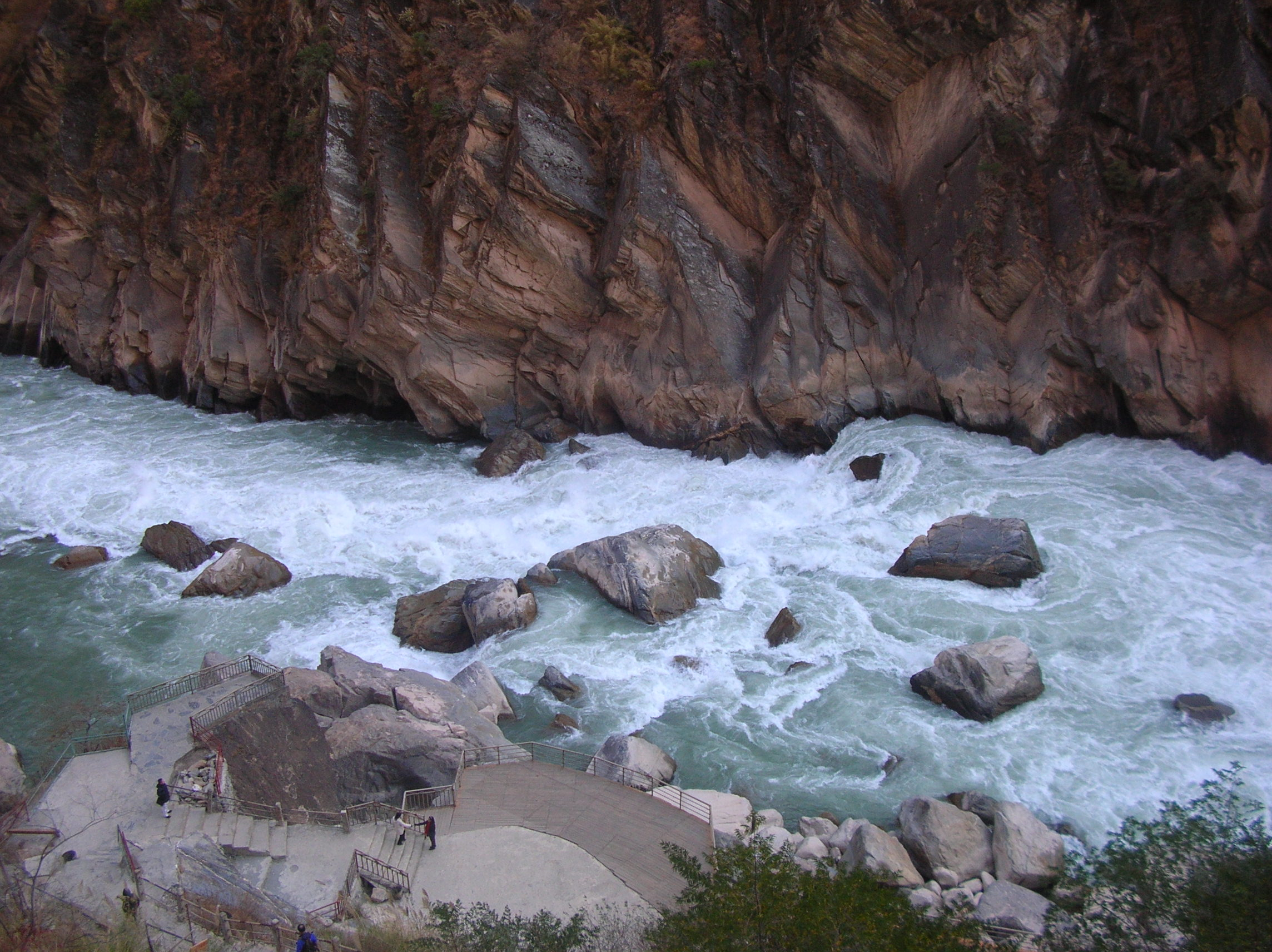 Tiger Leaping Gorge, taken by Tdxiang.